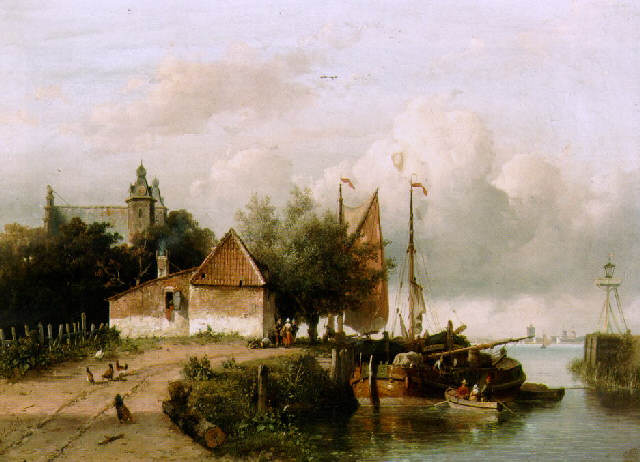 Moored sailing vessels near a town